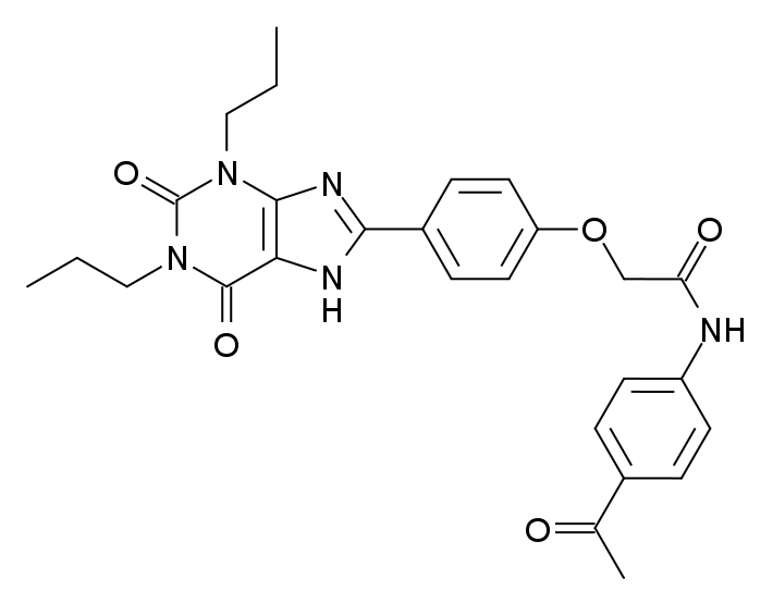 Structure of MRS1706